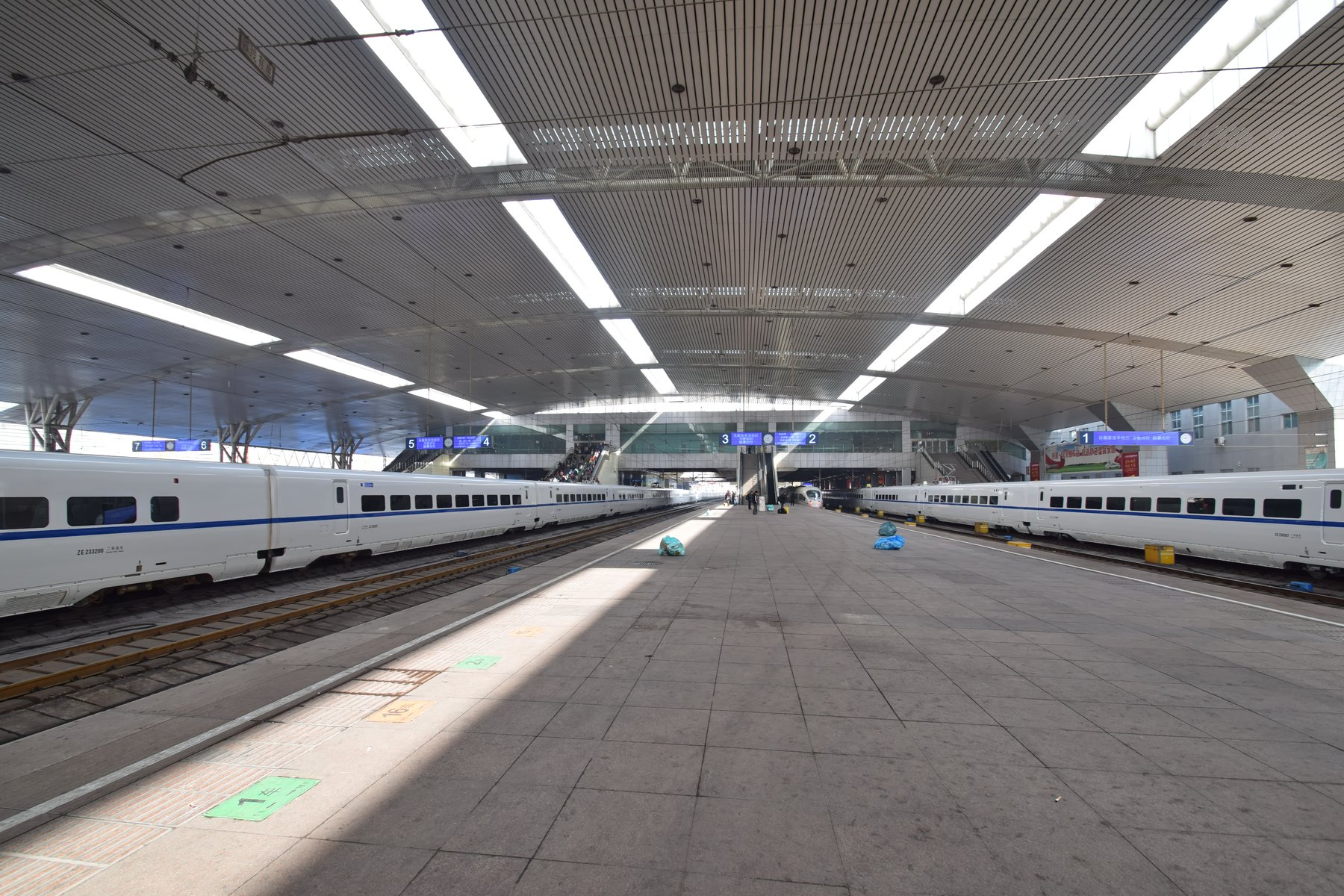 Platforms of Jinan Railway Station